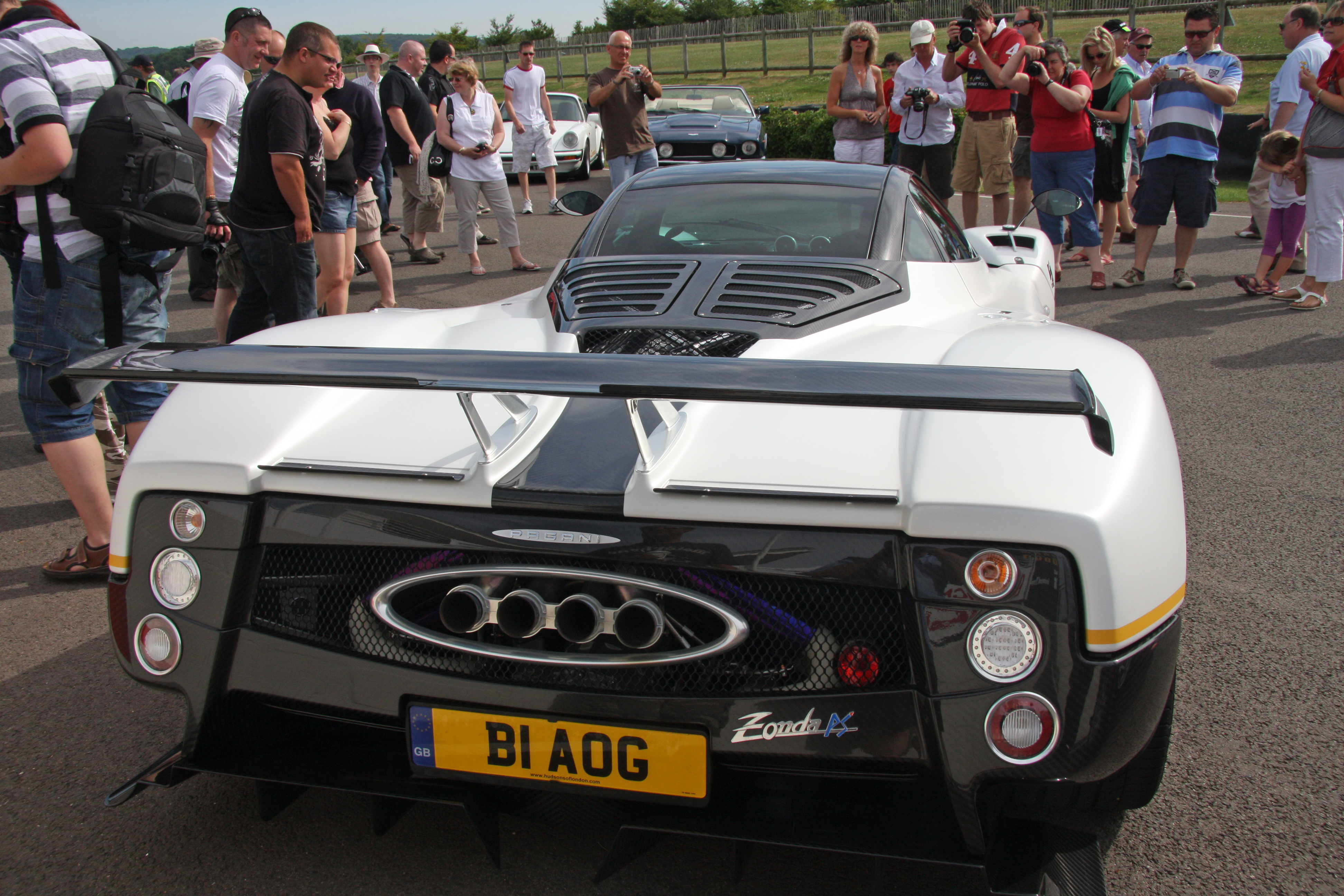 Pagani Zonda PS Probably the most photographed car of the morning